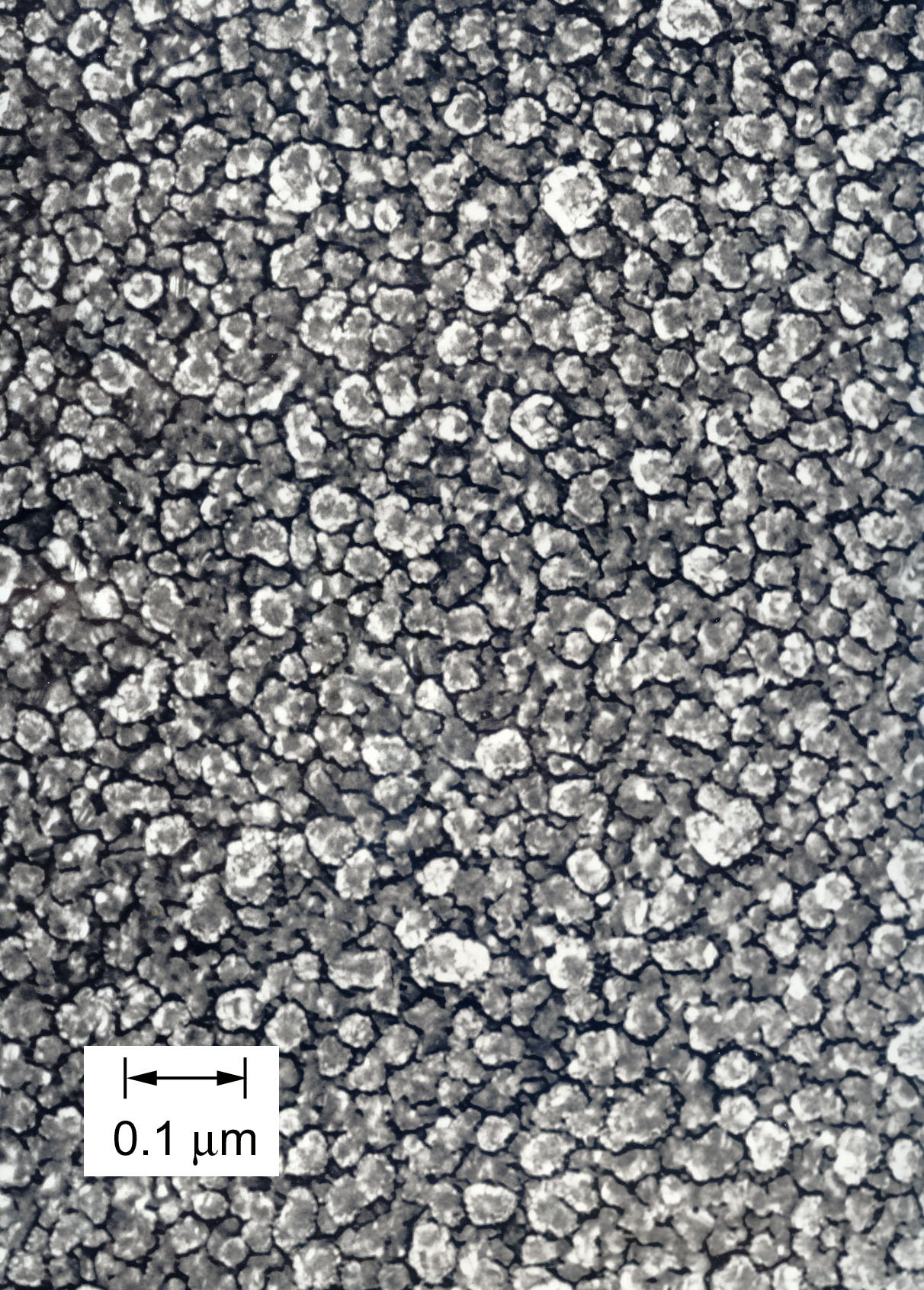 Scanning Electron Microscopy (SEM) image of an Au coated replica of a ta-C "diamond-like" coating. Structural elements are not crystallites but are nodules of sp3 bonded carbon atoms in which lattice geometries randomly alternate between the cubic and hexagonal polytypes of diamond. Scale marker corresponds to about the size of a virus. The cobblestone-like structure is at such small scale that such coatings appear mirror smooth.